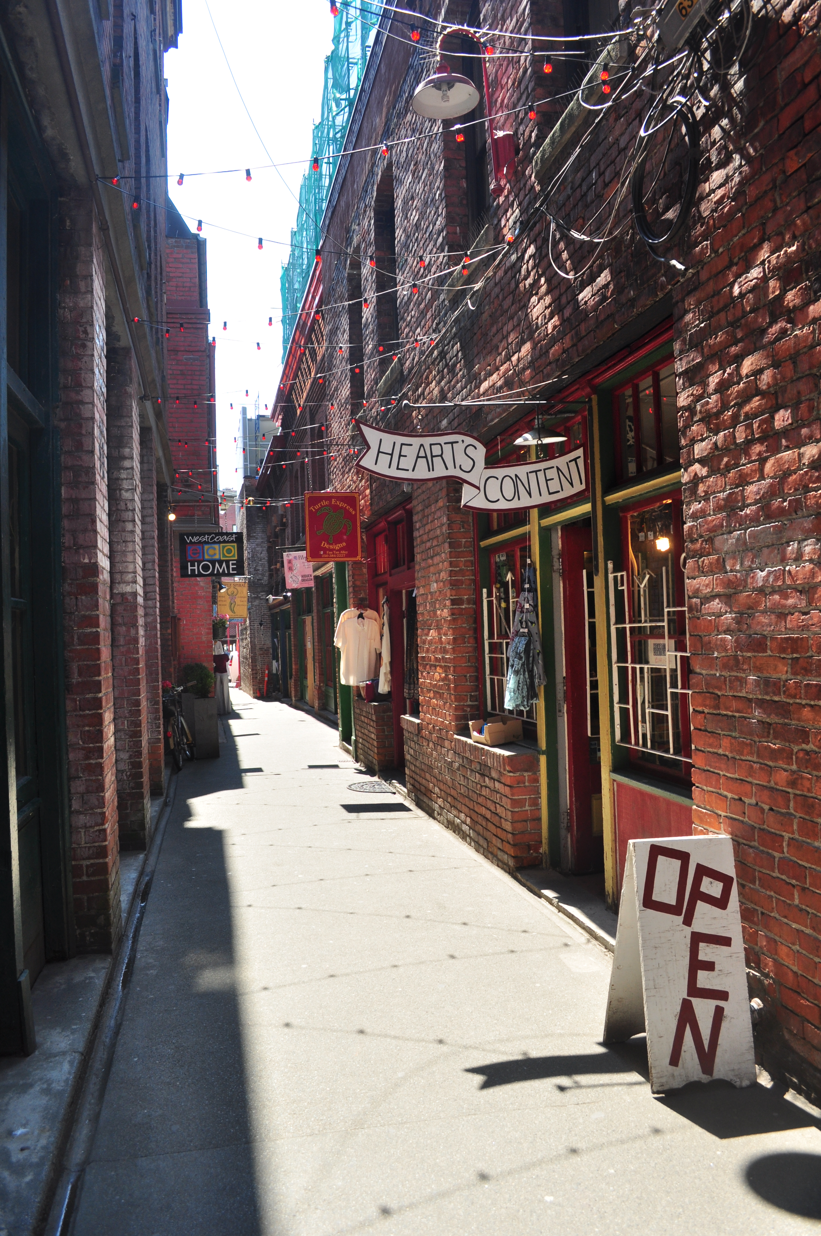 Fan Tan Alley in Victoria, British Columbia's Chinatown is famous for its extremely narrow entrances from either end. View here is looking south from near where the alley narrows on its north (by Fisgard Street), looking toward Pandora Avenue. The view includes three designated heritage sites, though only one of them features prominently in the photo: at the near right is the Sheam & Lee Building (Heart's Content is in that building). The Yee King Yum Building is at immediate left, the Ning Young Building can be seen on the right just before the alley narrows, and 10-14 Fan Tan Alley is immediately to the right of that.